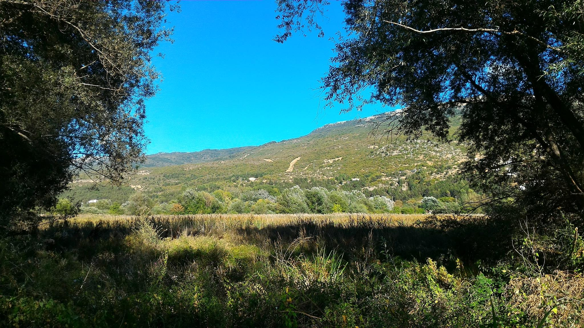 The Studenchishte Marsh wetland has been proposed as a Monument of Nature